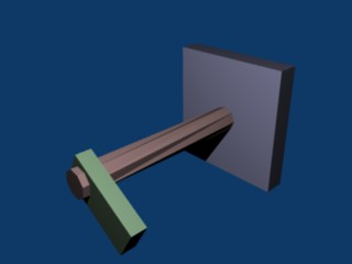 Rendering of a torsion bar that is under load.